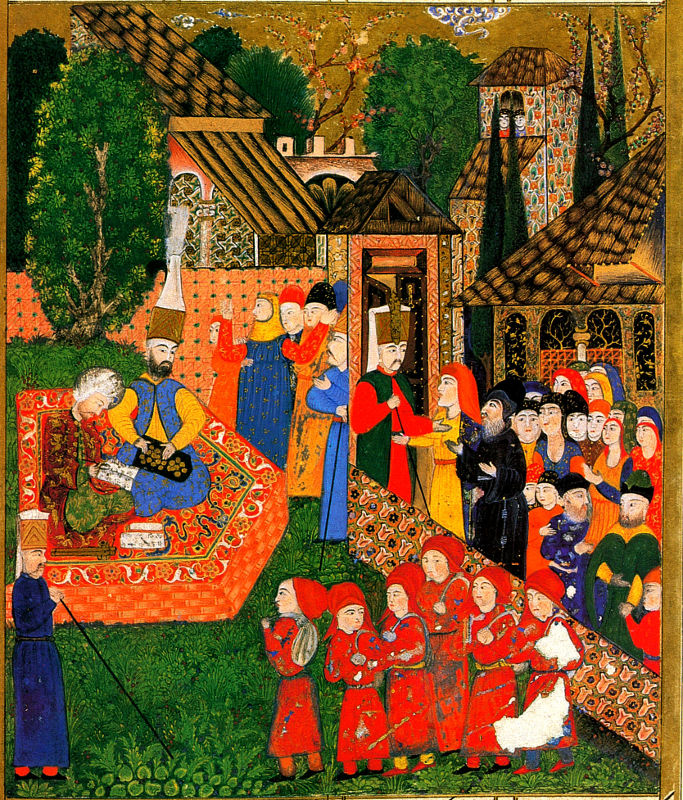 Illustration of the registration of Christian boys for the devşirme ("tribute in blood"). Ottoman miniature painting, 1558.[1] ↑ Celebi, Arif (1588). Janissary Recruitment in the Balkans. Süleymanname, Topkapi Sarai Museum, Ms Hazine 1517.